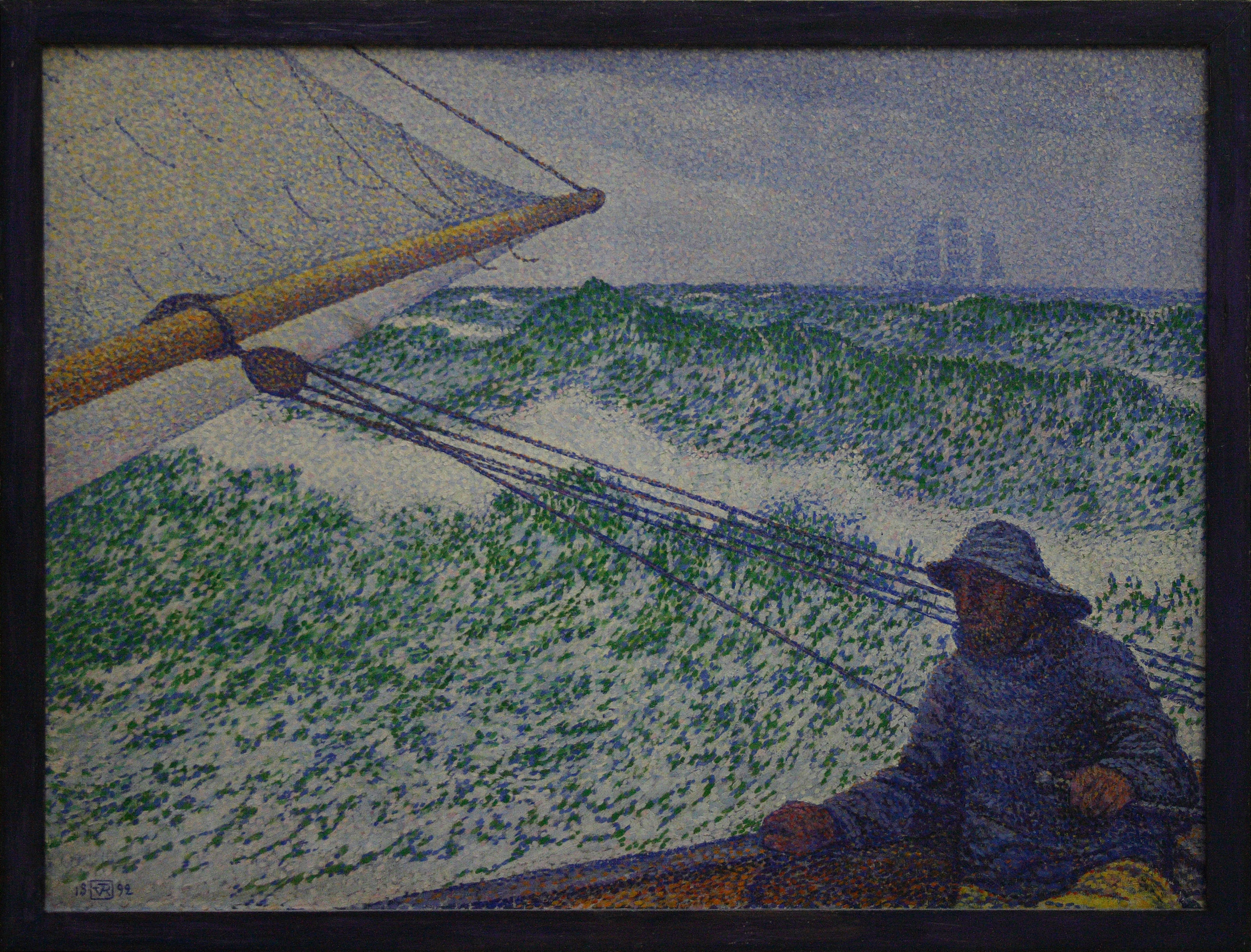 Painting of Théo van Rysselberghe in the Orsay Museum, Paris